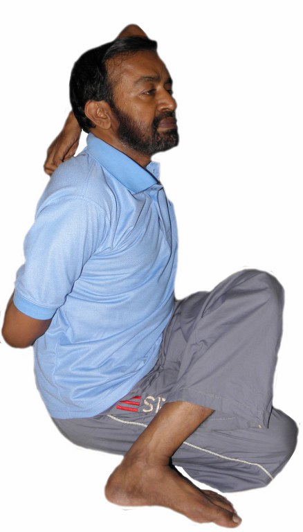 Cow face pose.JPG